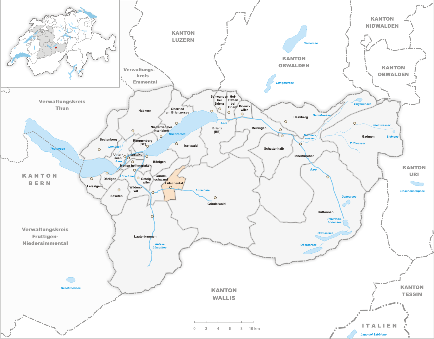 Municipality Lütschental